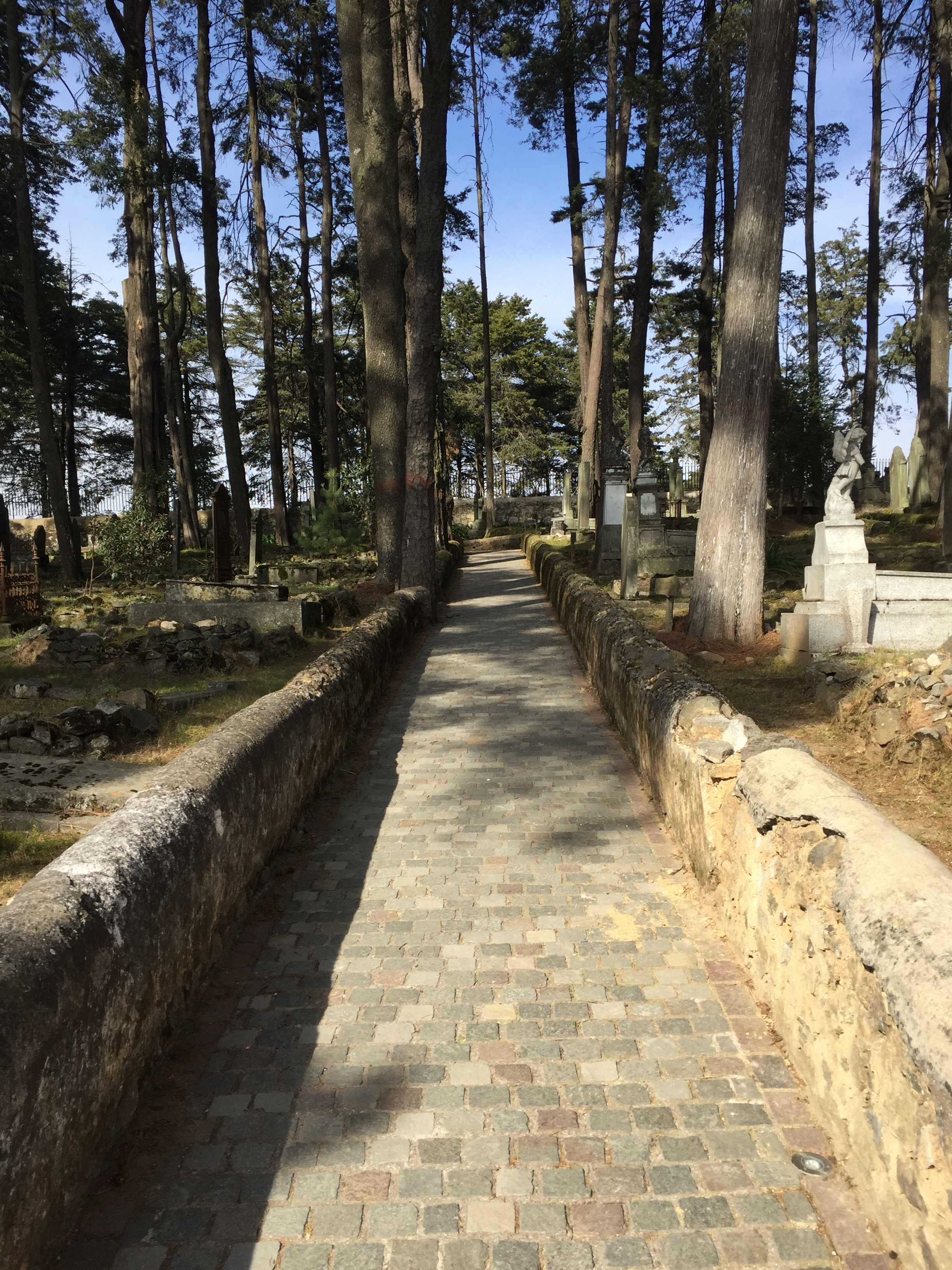 Central aisle of the English Graveyard of Mineral del Monte, in the state of Hidalgo, Mexico.